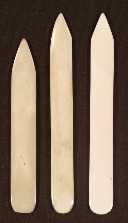 Three bonefolders. The two on the left have been shaped and oiled, while the one on the right has not been altered. The shorter folder measures approximately 15 cm, while the longer two are 17.5 cm each.